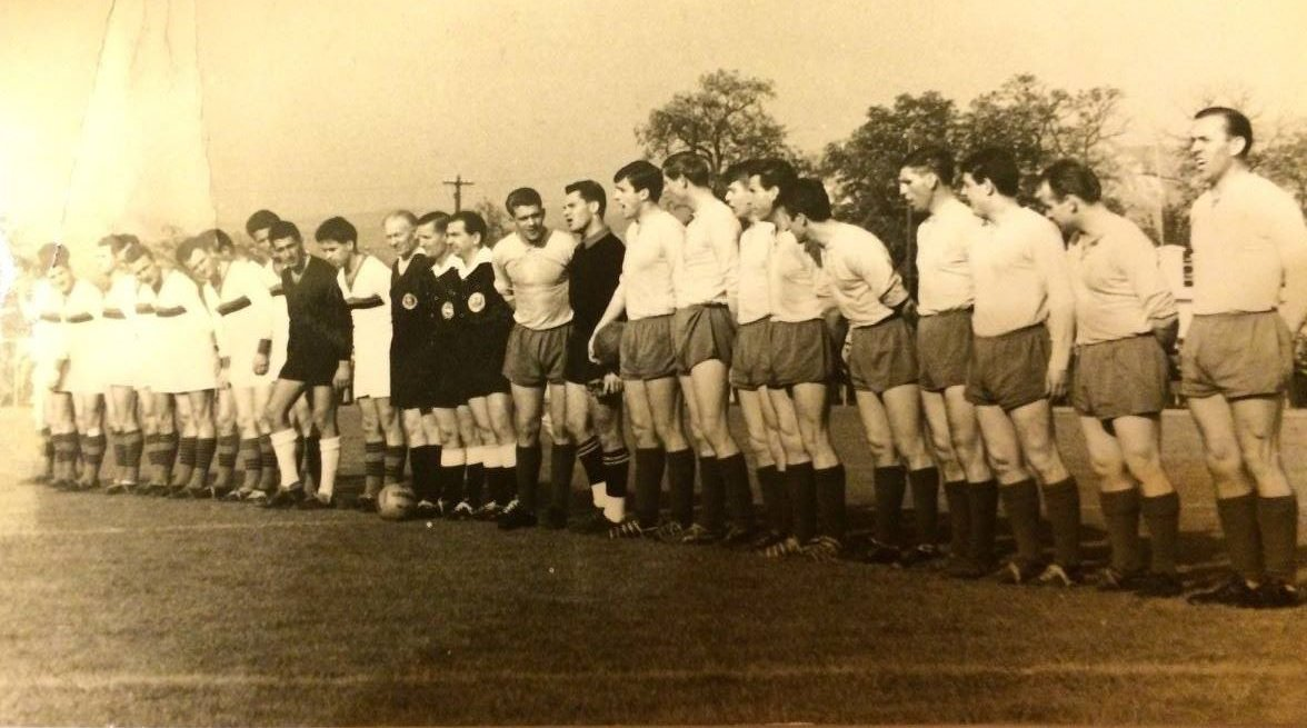 Rappan Cup as best knows Inter-toto Cup match in Dorog. It was the first round in 3rd group. Dorog won 4 a 1.